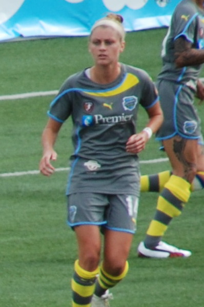 Sinead Farrelly (Philadelphia Independence)